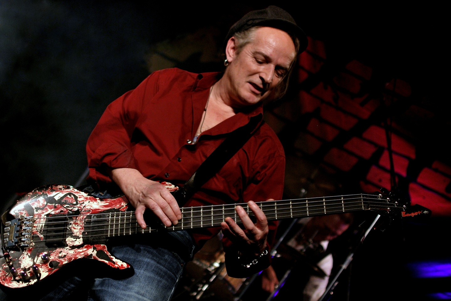 Pankow (German Band), Concert 2011-12-03 in Neubrandenburg, Ingo York on the bass